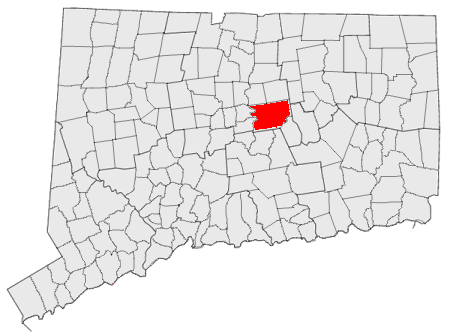 I modified this from Image:US-CT-Fairfield.png, itself a GNU Licensed file